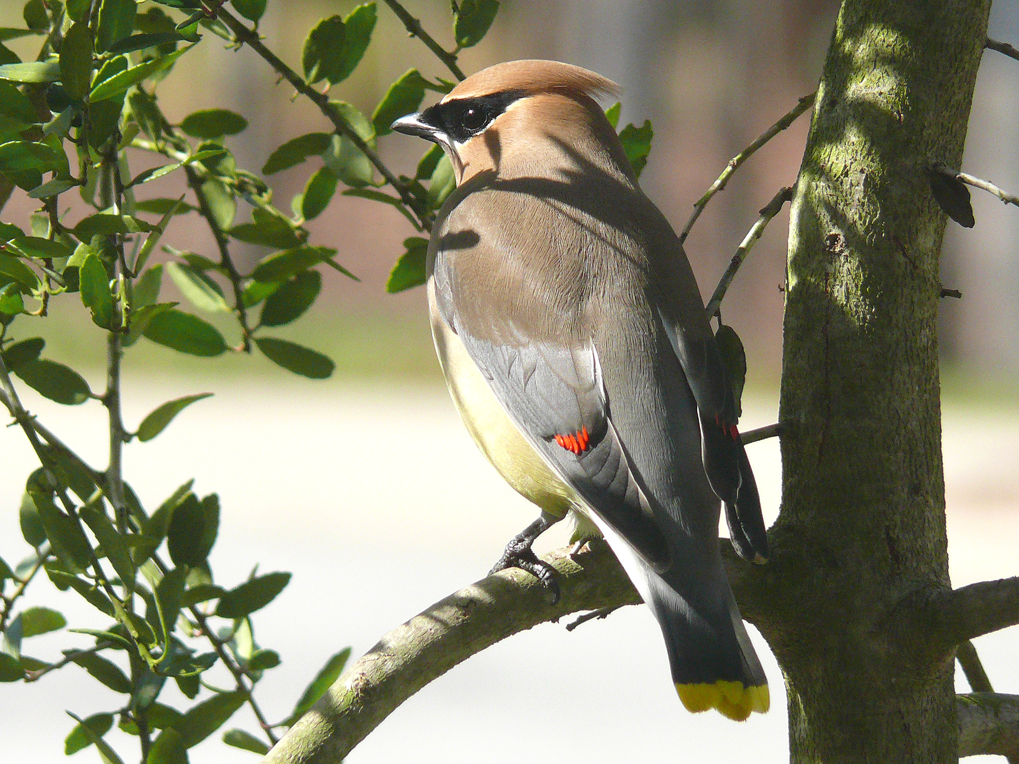 A Cedar Waxwing (Bombycilla cedrorum) perched in the branches of a Weeping Holly tree. Photo taken with a Panasonic Lumix DMC-FZ50 in Johnston County, North Carolina, USA.